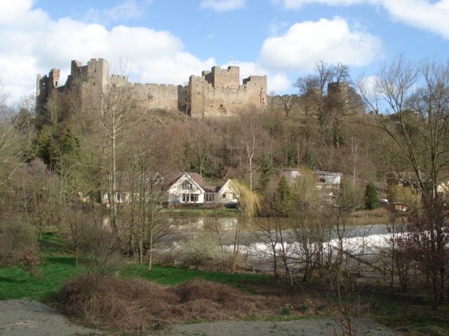 Ludlow Castle and River Teme